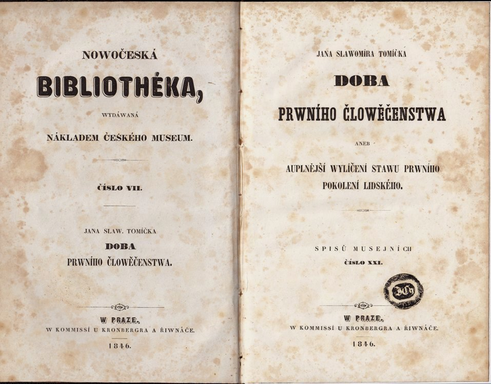 The title page of "The Age of the First Man" by Jan Slavomír Tomíček (1806 - 1866)